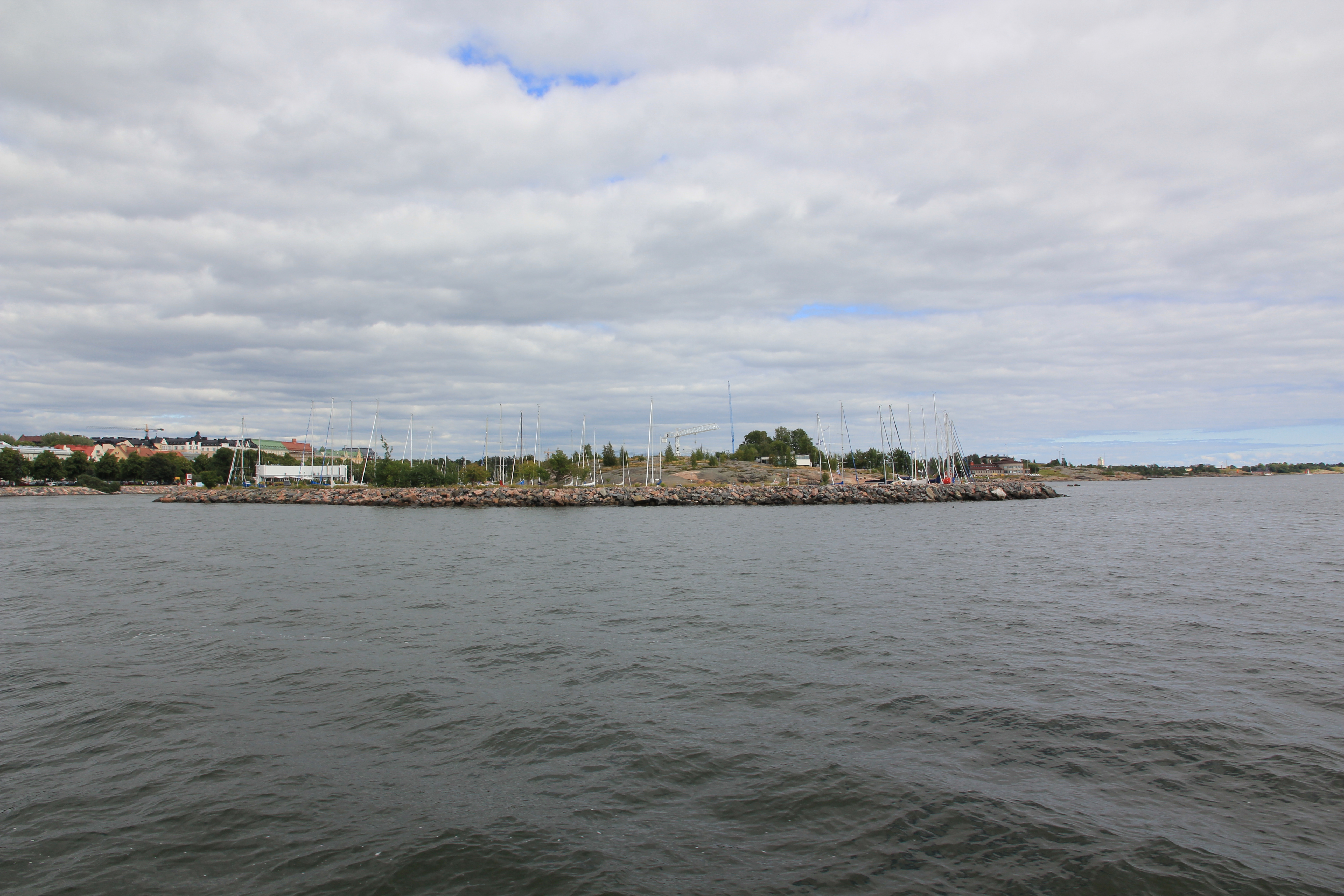 Sirpalesaari island from west, on the foreground is a breakwater.